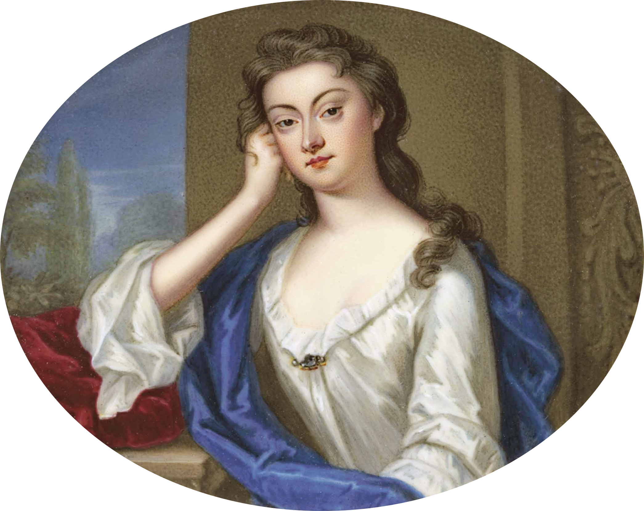 Elizabeth Butler, née Crew, Countess of Arran (c. 1679-1756) enamel oval, 75 mm wide